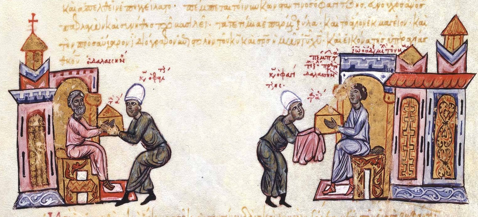 John the Orphanotrophos sends Phagitzes with relics to Constantine Dalassenos as a token of safe conduct